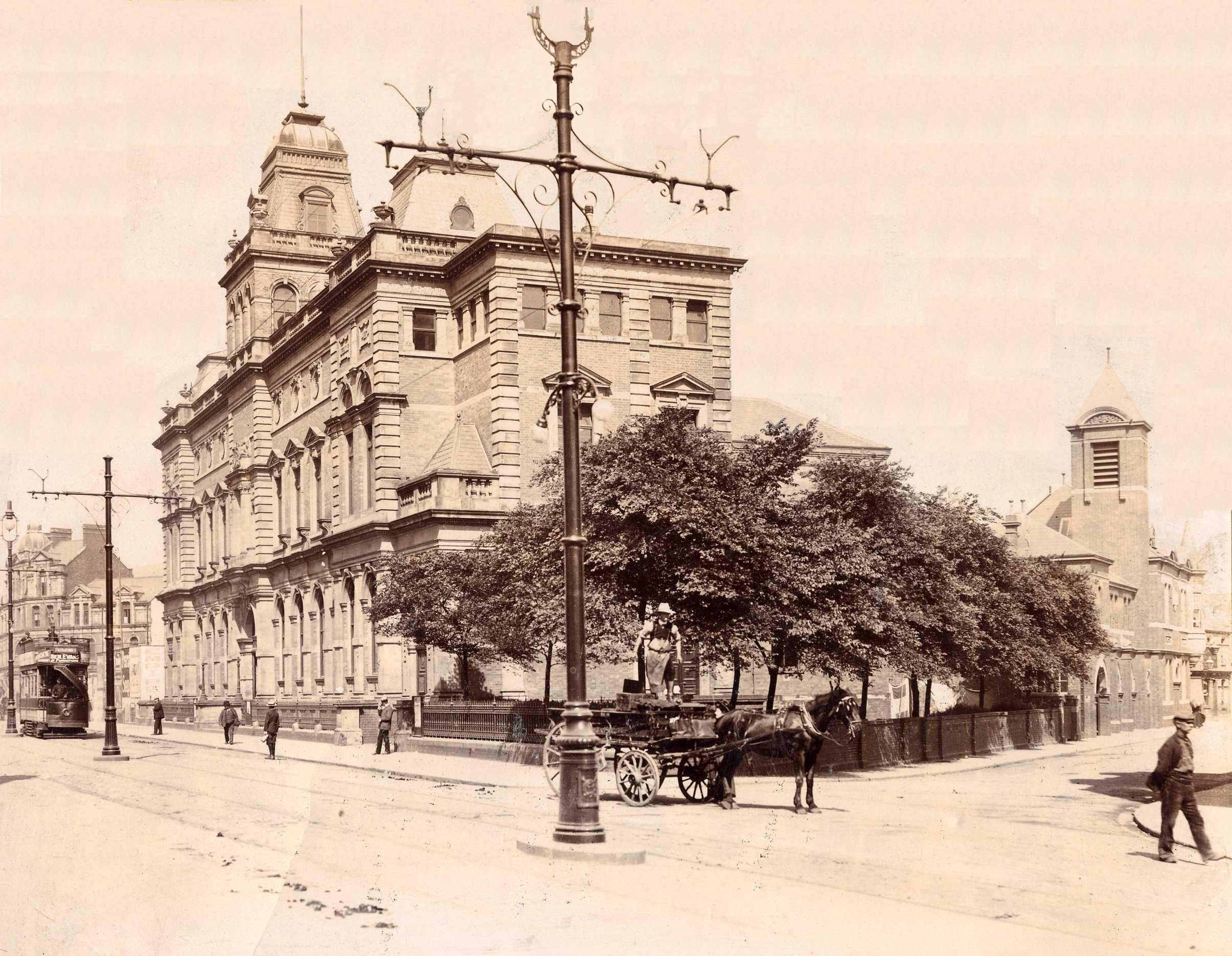 A picture of Swansea Metropolitan University's Alexandra Road campus (1890s)